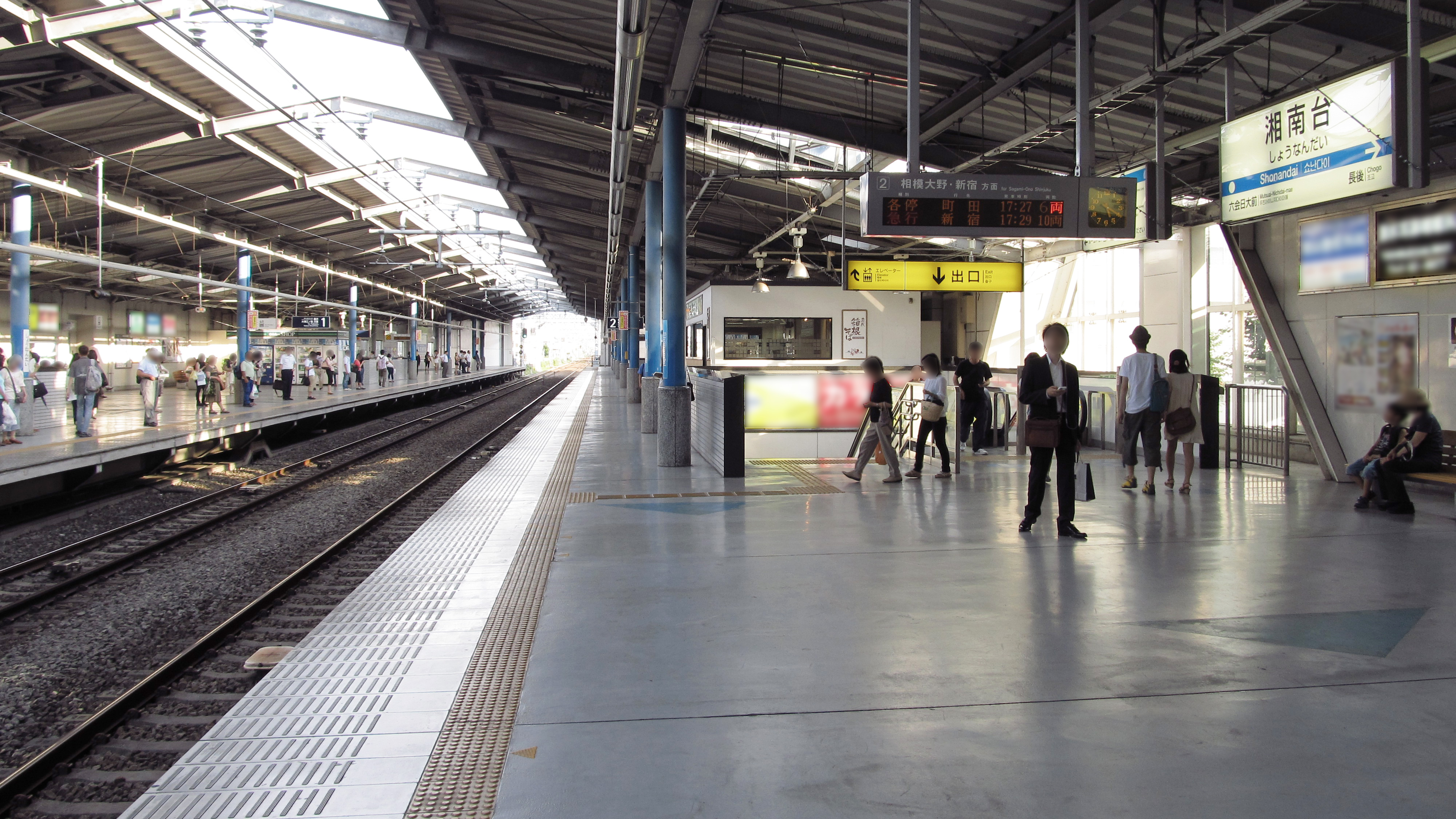 The platforms at Shōnandai Station on the Odakyū Electric Railway Enoshima Line in Fujisawa city, Kanagawa, Japan